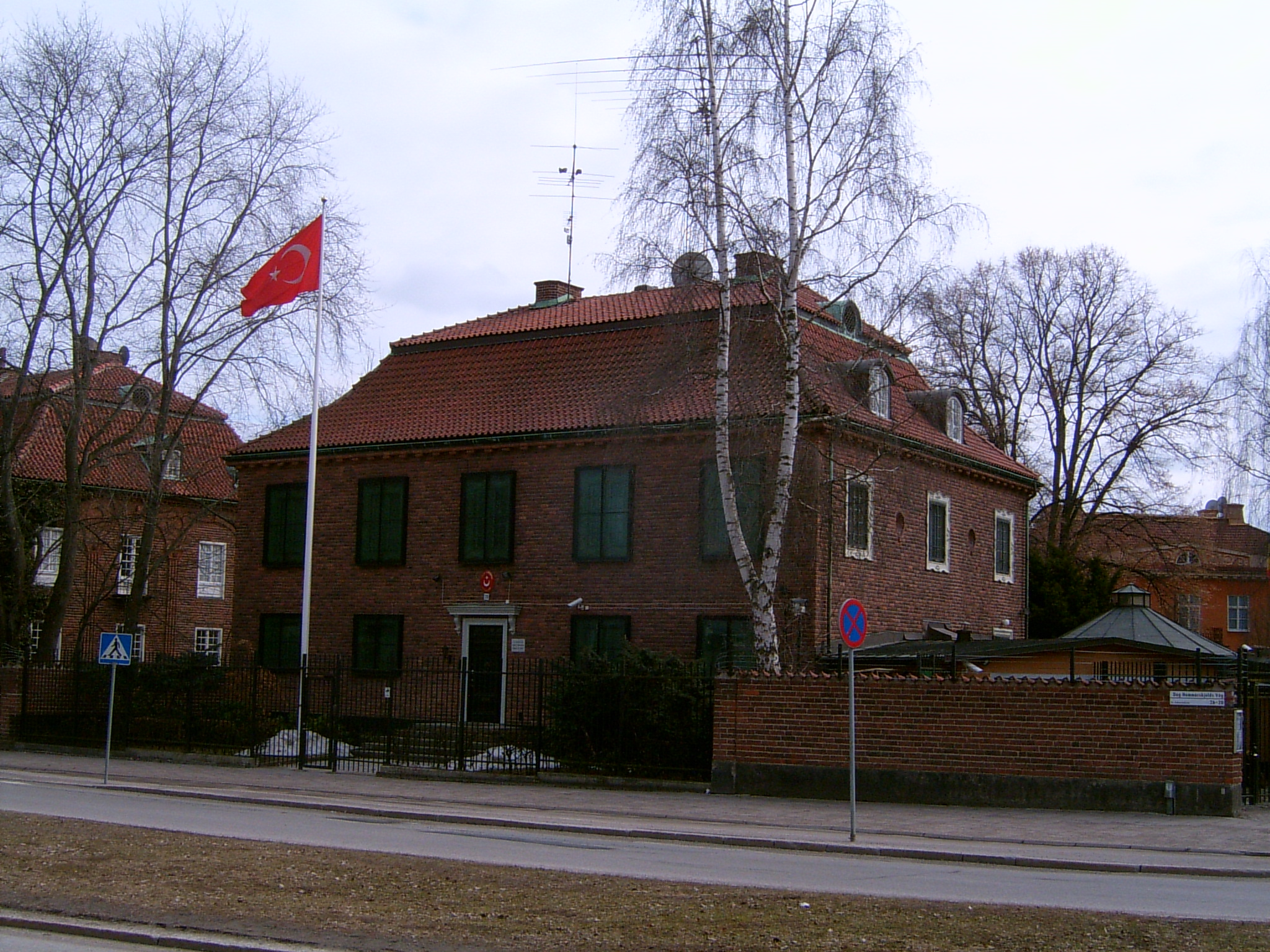 Embassy of Turkey in Stockholm.